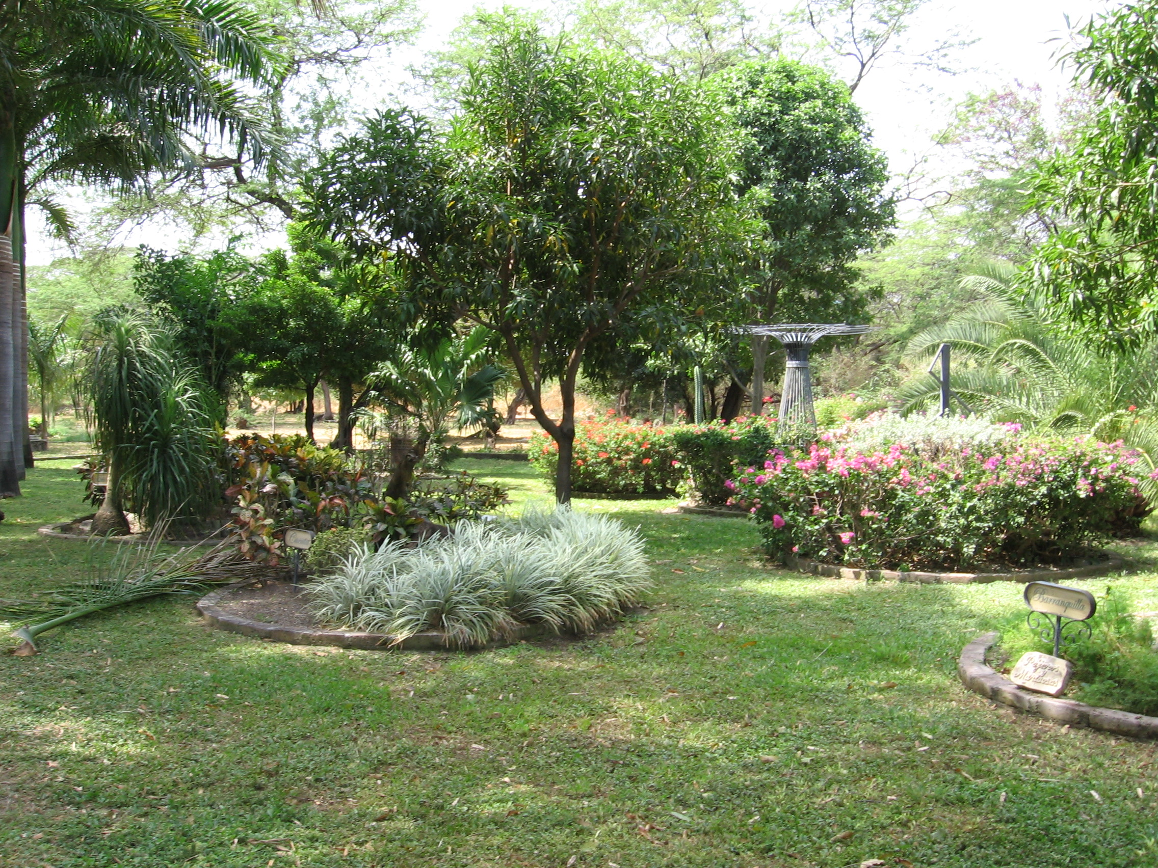 Foto de los jardines de San Pedro Alejandrino. Foto tomada por MI HERMANO, guía de la Quinta de San Pedro Alejandrino. Mijotoba from es, the copyright holder of this work, hereby publishes it under the following license: Attribution: Mijotoba